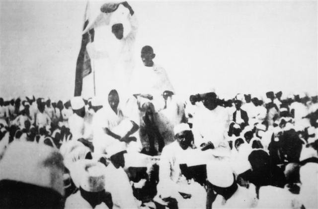 Gandhi during the Salt Satyagraha of 1930. Photograph taken at the Sardar Patel National Memorial, Ahmedabad, Gujarat, India.